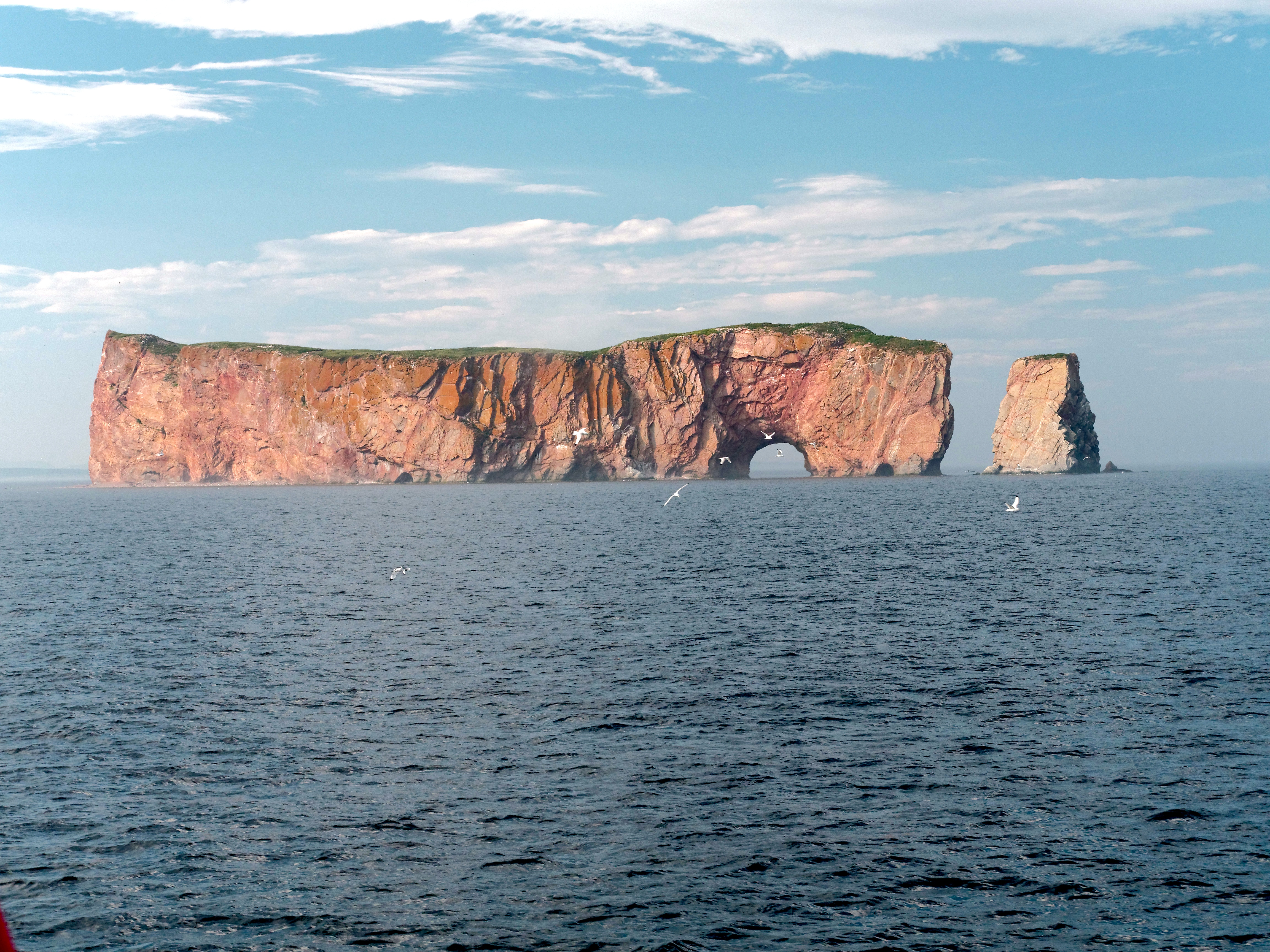 Coming back from Bonaventure Island. Percé - Gaspésie - Québec - Canada